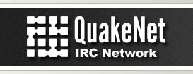 QuakeNet Logo (Website)